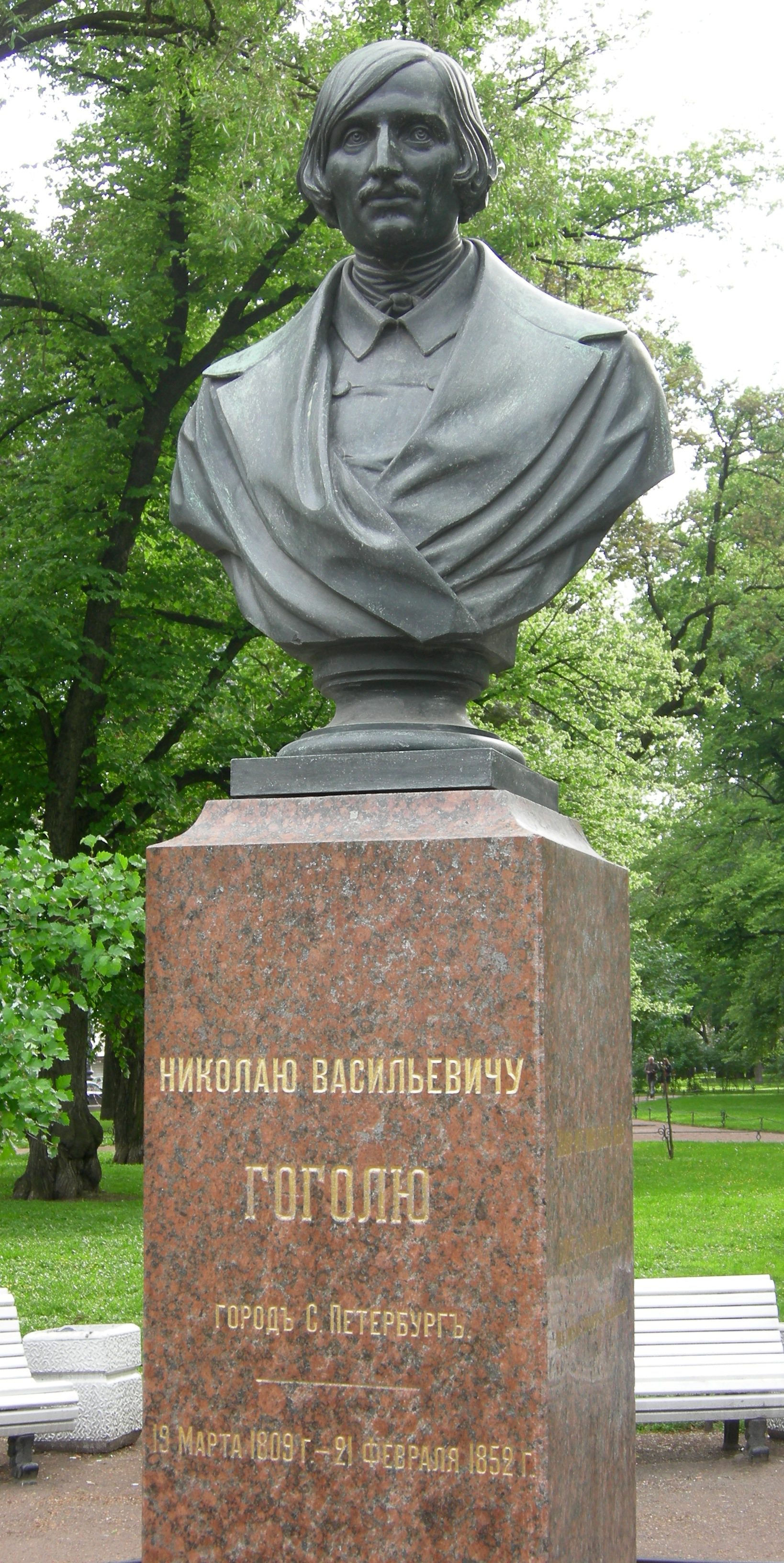 Bust of Gogol in St. Petersburg.